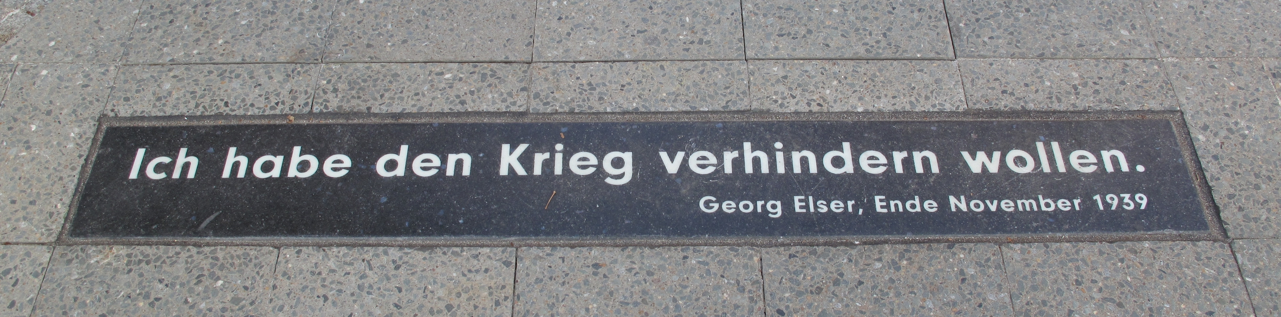 'I wanted to avert the war.' Quote from Elser at the sculpture Denkzeichen Georg Elser. The historical marker Denkzeichen Georg Elser is a sculpture in Berlin-Mitte commemorating the German opponent of Nazism and attempted assassin of Hitler Georg Elser. The 17-meter high sculpture was created by the artist Ulrich Klages and was opened to the public on 8 November 2011. It is situated at the corner Wilhelmstraße/An der Kolonnade and is completed by two quotes from Elser set into the sidewalk and by an information board.